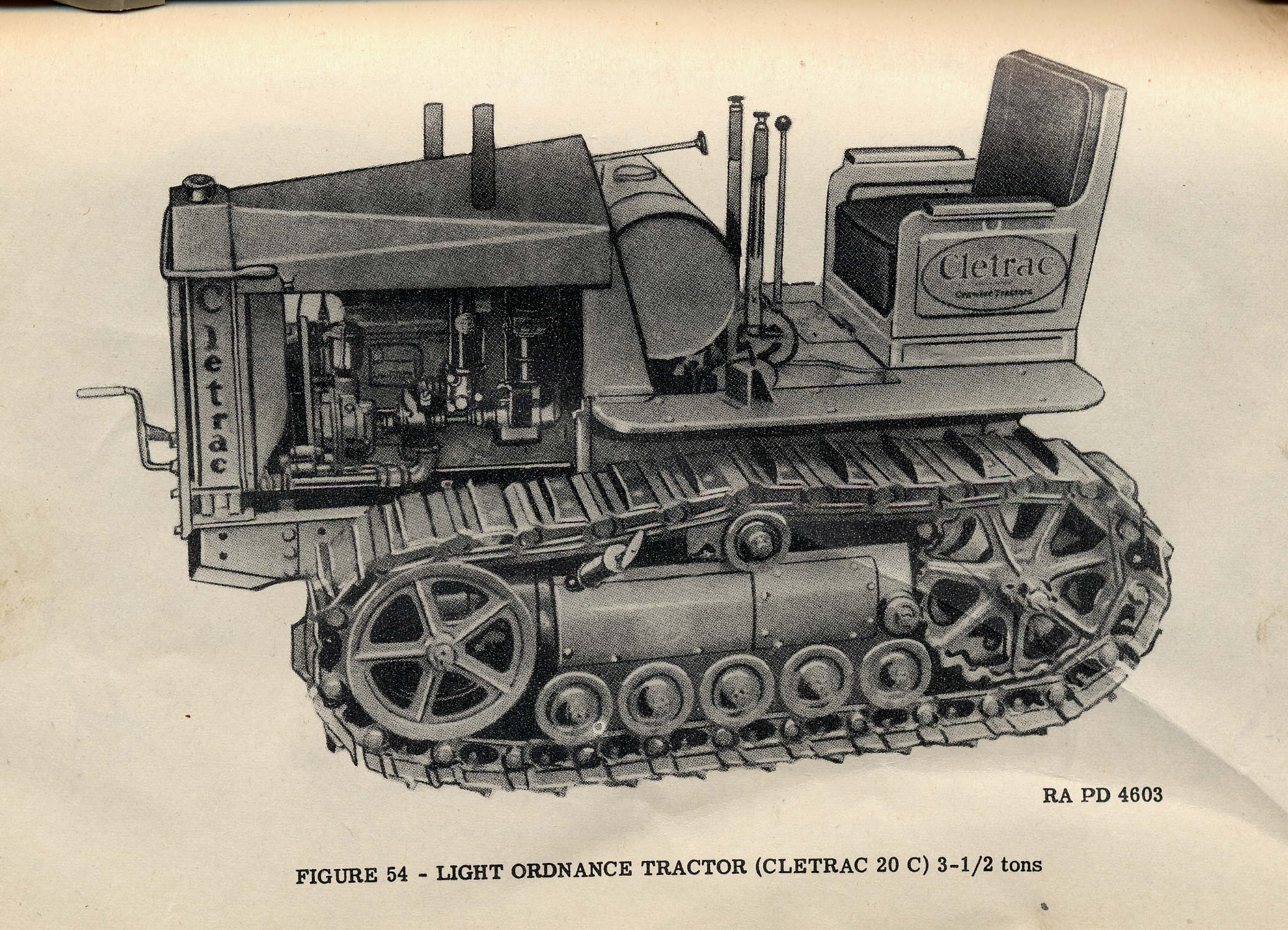 Light Ordnance Tractor Cleavland tractor Co. model 20c